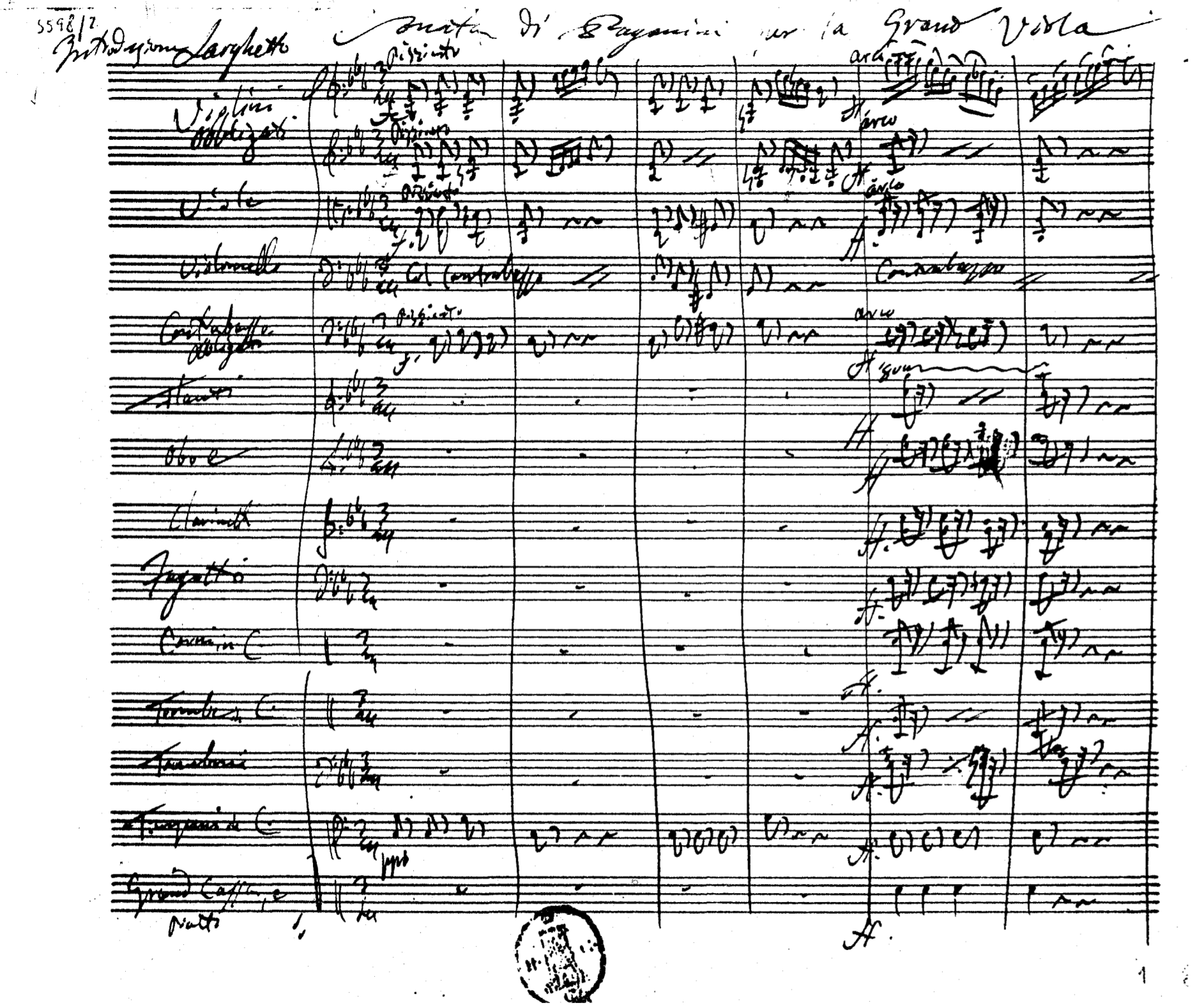 Composer's manuscript first page of the Sonata per la Grand Viola.